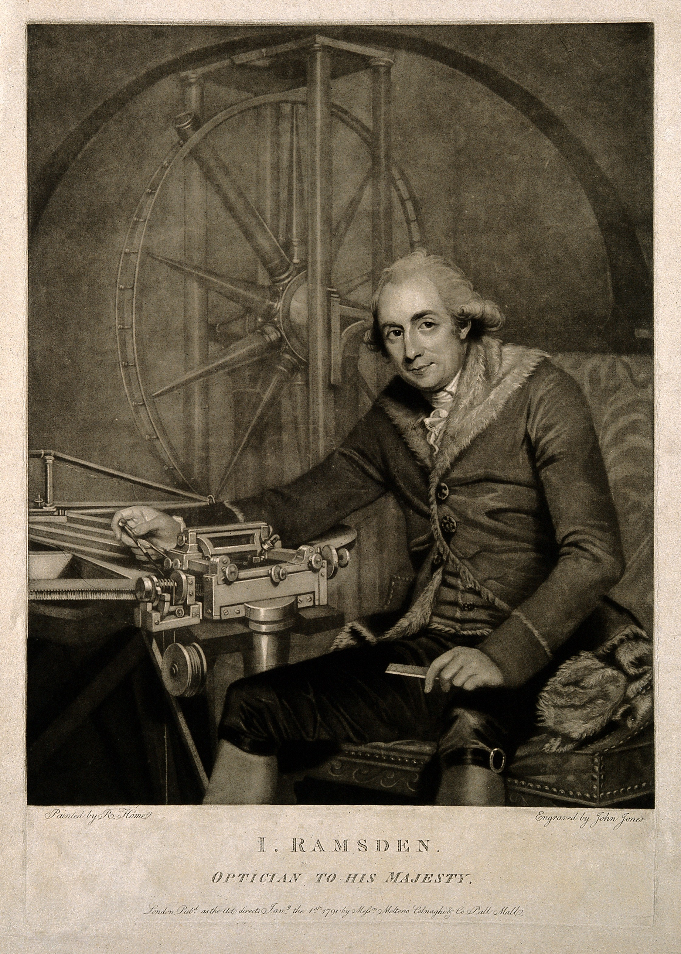 Jesse Ramsden. Mezzotint by J. Jones, 1791, after R. Home. Iconographic Collections Keywords: portrait prints; R. Home; mezzotints; J. Jones; Jesse Ramsden